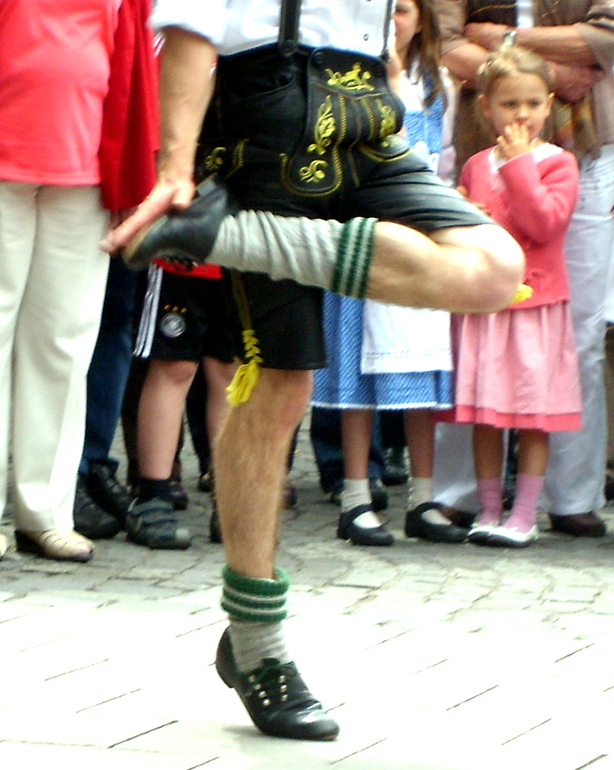 Schuhplattler is a traditional Austro-Bavarian folk dance evolved from the Ländler.